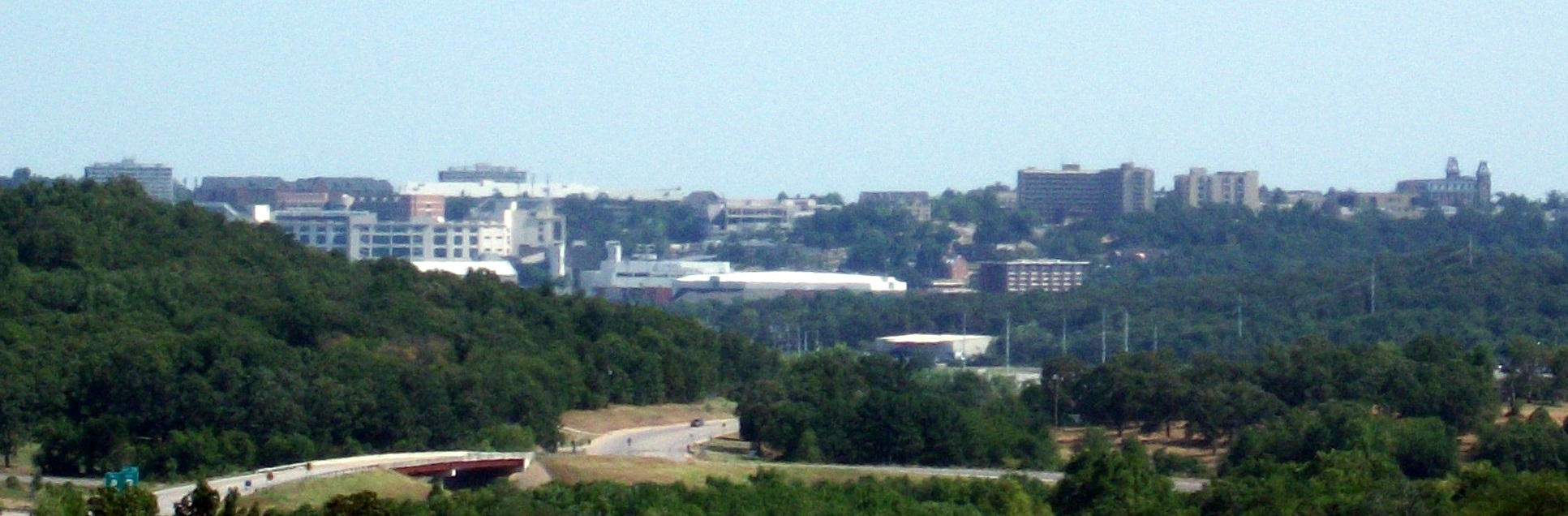 Skyline of Fayetteville, AR from the south facing the University of Arkansas. Photo taken from northbound I-540.